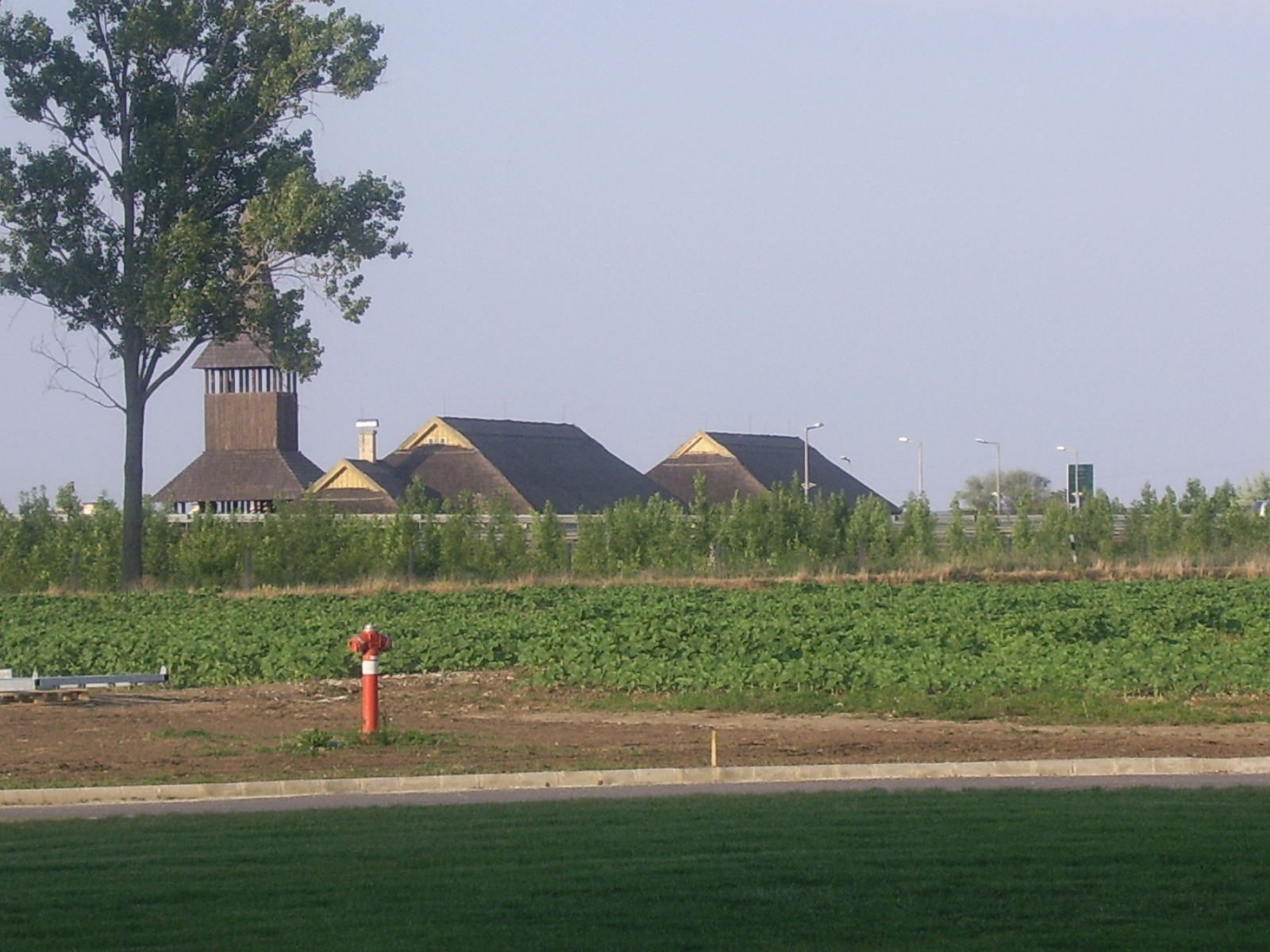 The M3 Archeopark near M3 Outlet Center, Polgár